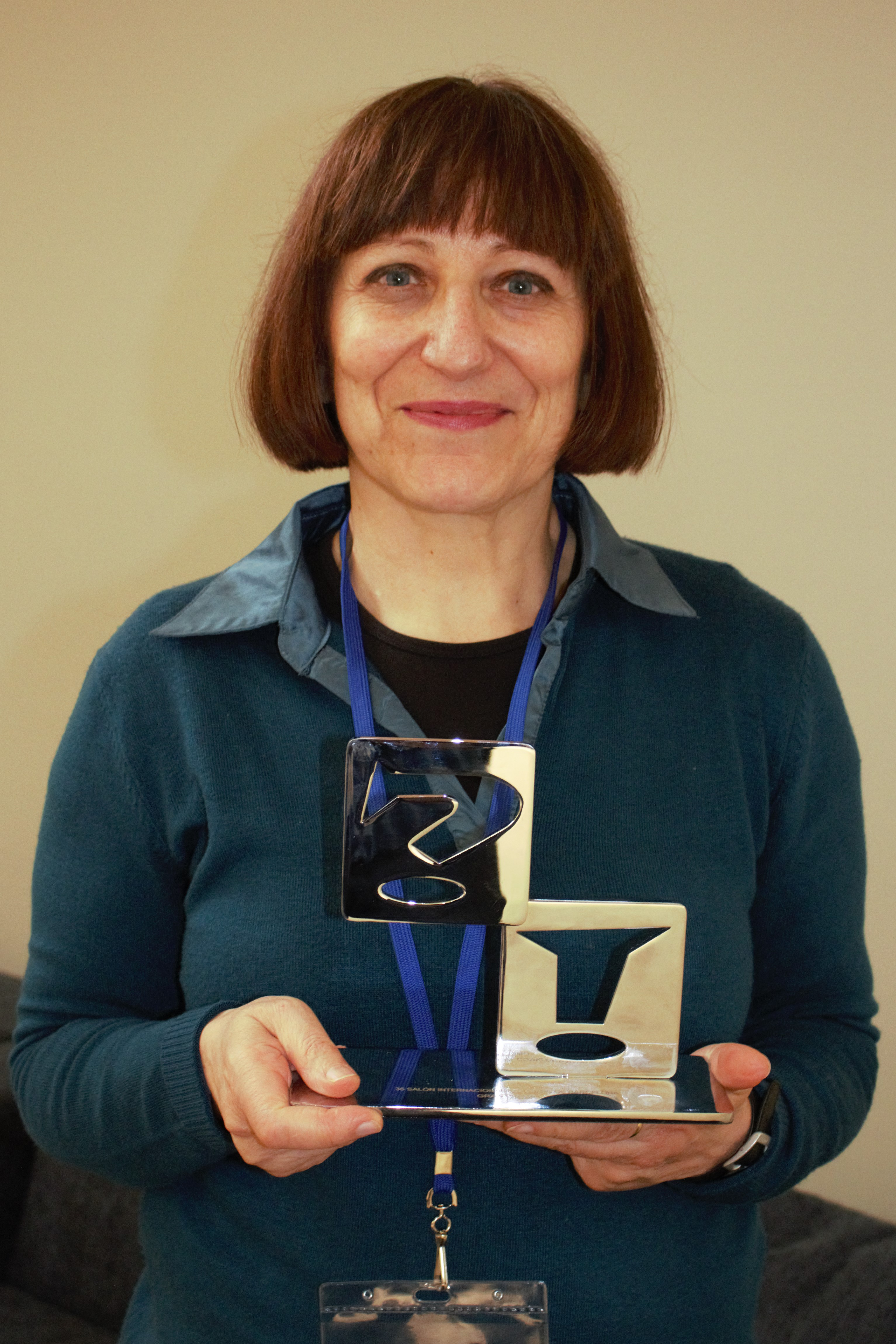 The comic author Laura Pérez Vernetti after having won the Big Prize of the Jury (Gran Premi del Saló) of 2018. Barcelona International Comic Fair 2018.